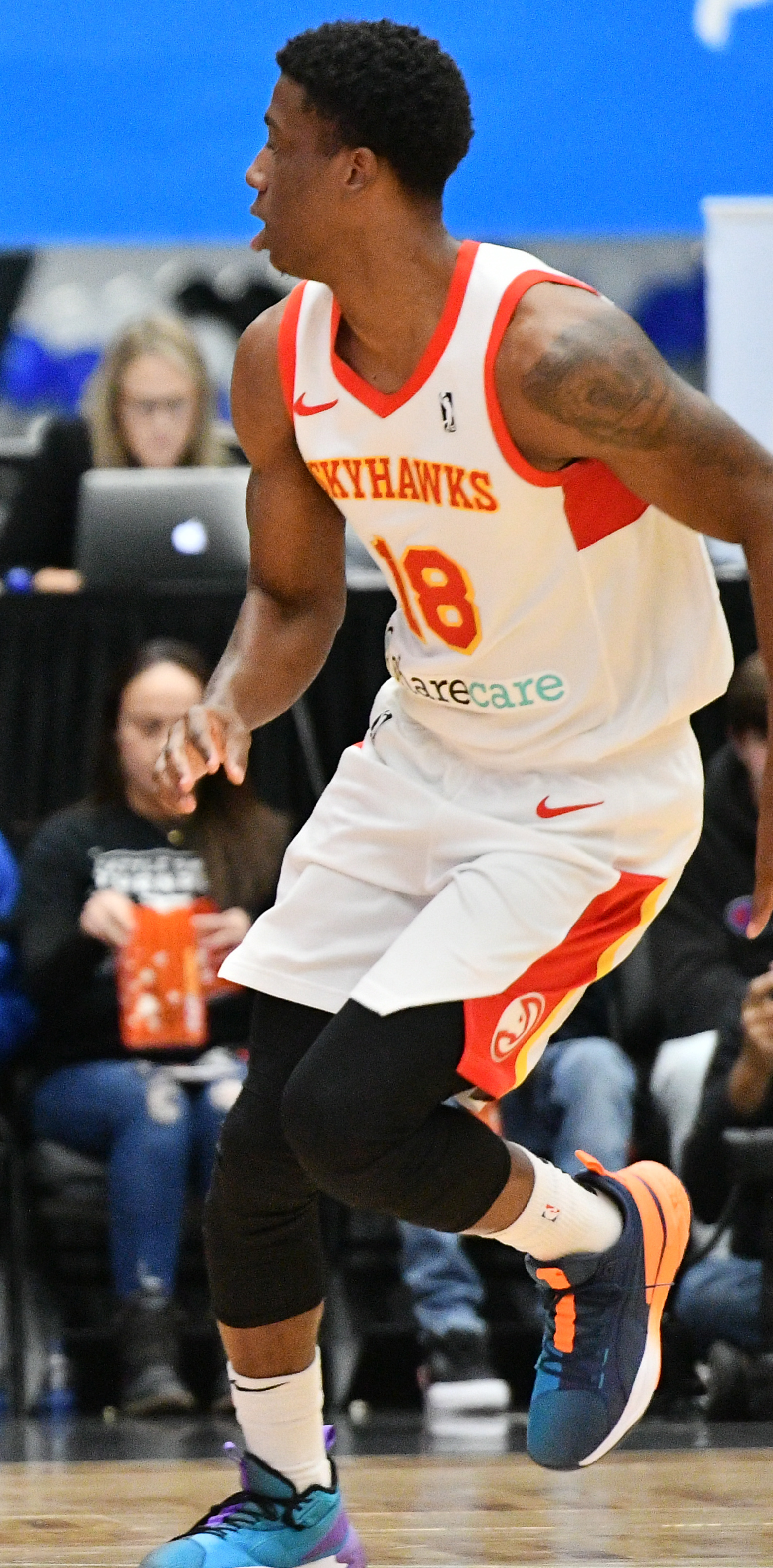 Hassani Gravett. Lakeland Magic vs College Park Skyhawks. RP Funding Center. Lakeland, Fla. Nov. 16, 2019. (Photo by Tom Hagerty.)